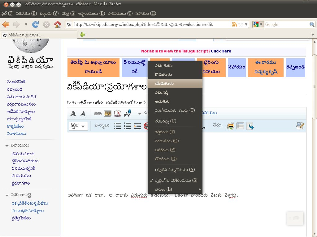 Firefox Telugu Spell Check demonstration